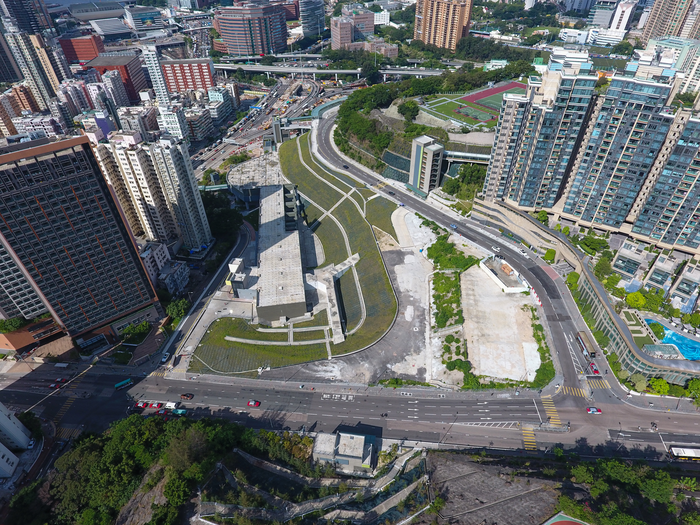 Overlook of MTR Ho Man Tin station